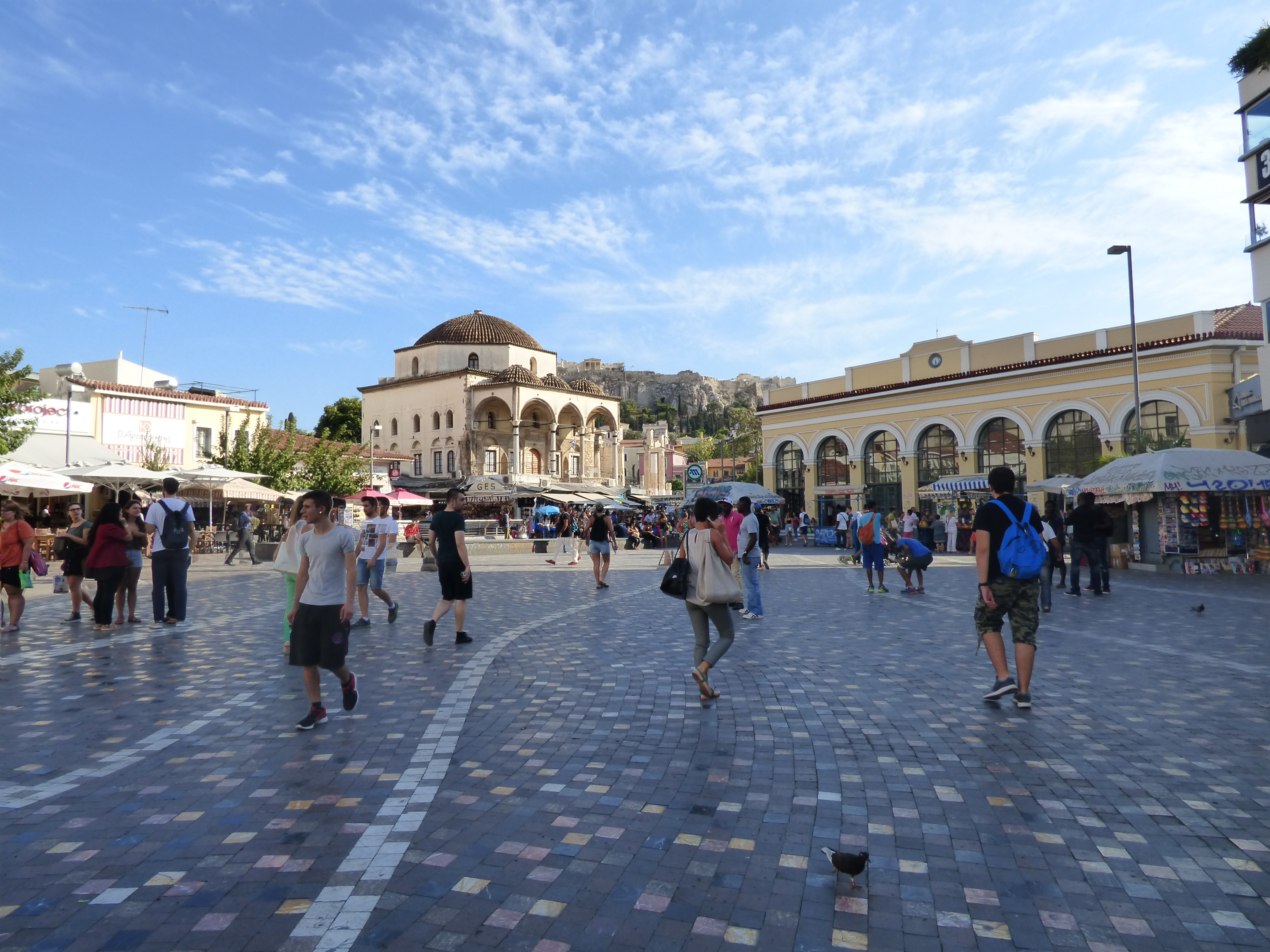 Monastiraki square